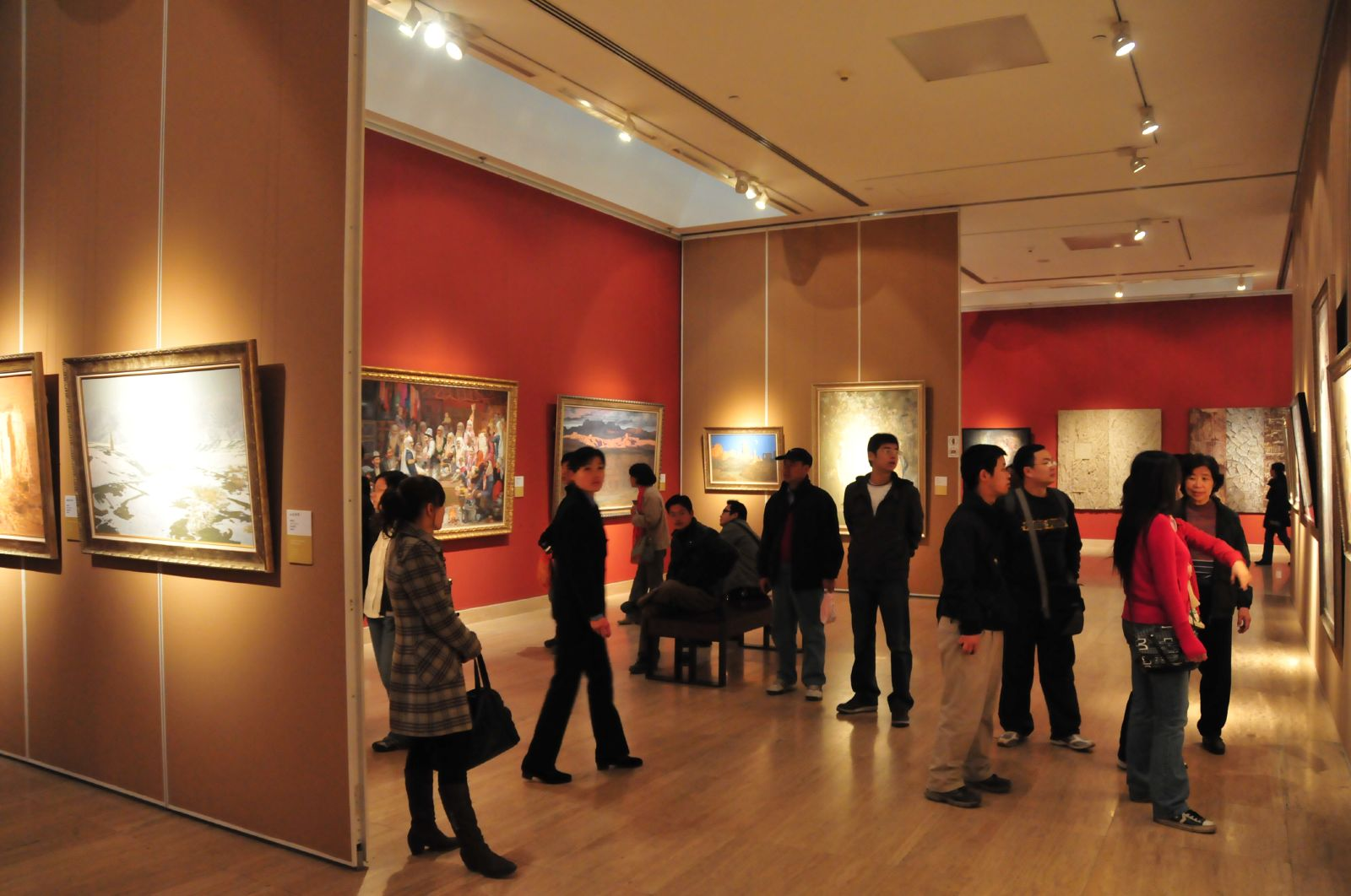 The National Art Museum of China, Beijing